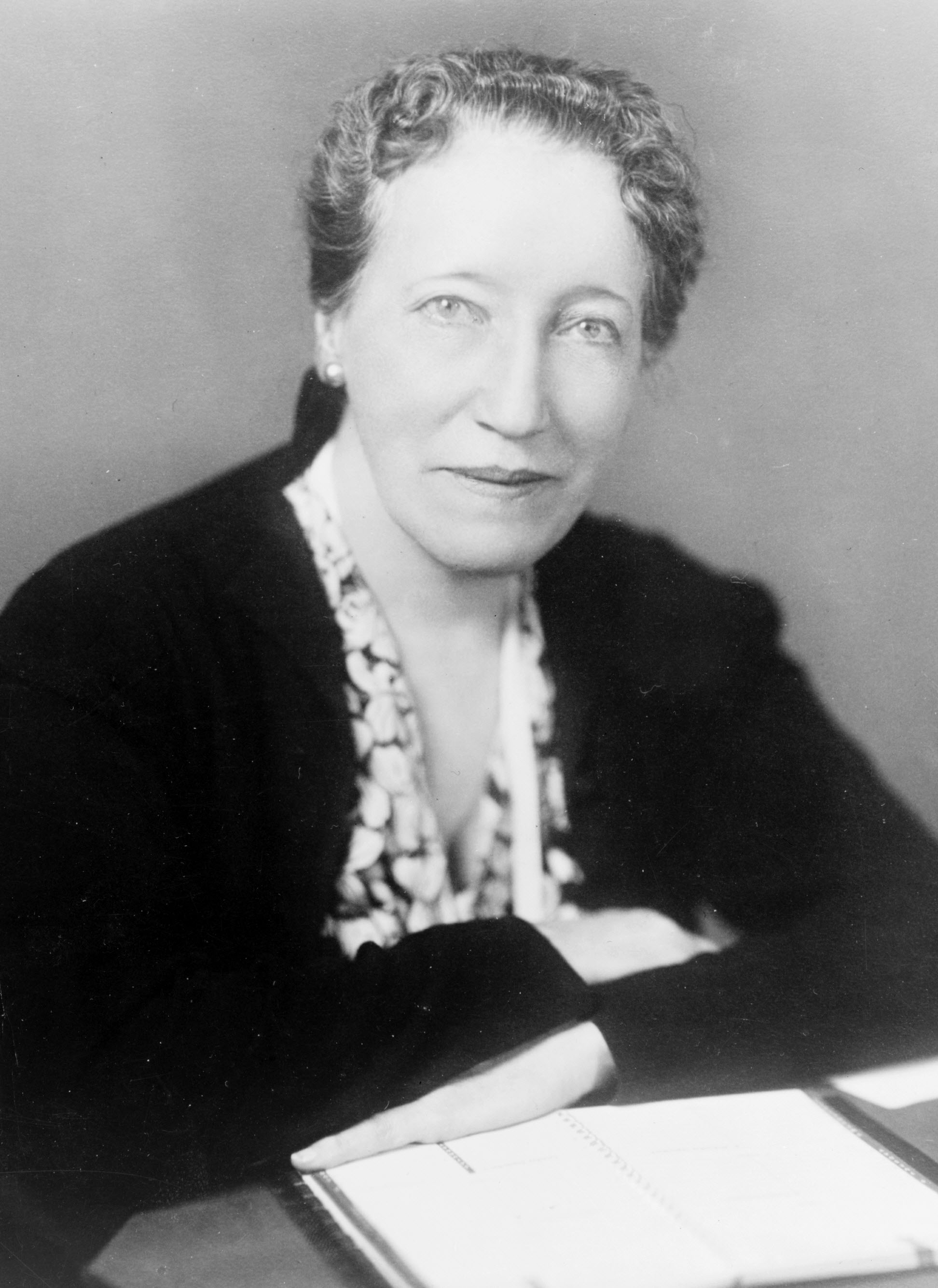 Former congresswoman Caroline Love Goodwin O'Day of New York.